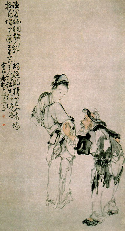 Firsherman and Fisherwoman, Huang Shen, Qing Dynasty, China, Nanjing Museum.